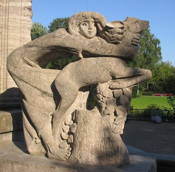 Limestone-sculpture „Brüderchen und Schwesterchen“ (brother and sister) in the Schulenburgpark in Berlin-Neukölln, created on the occasion of the restoration of the „Märchenbrunnen“ (german for: tale fountain) in 1970 by the sculptress Katharina Szelinski-Singer.